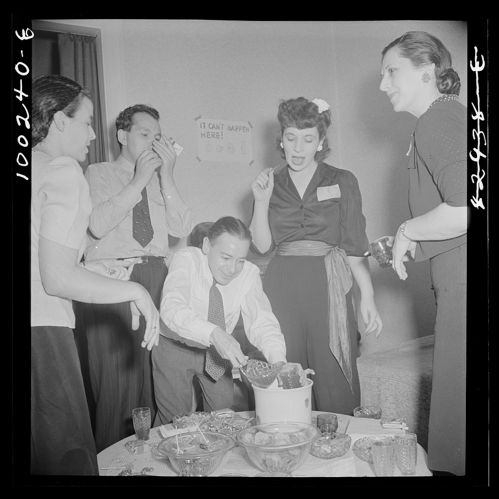 Washington, D.C. Serving punch during an evening party at the home of a government artist